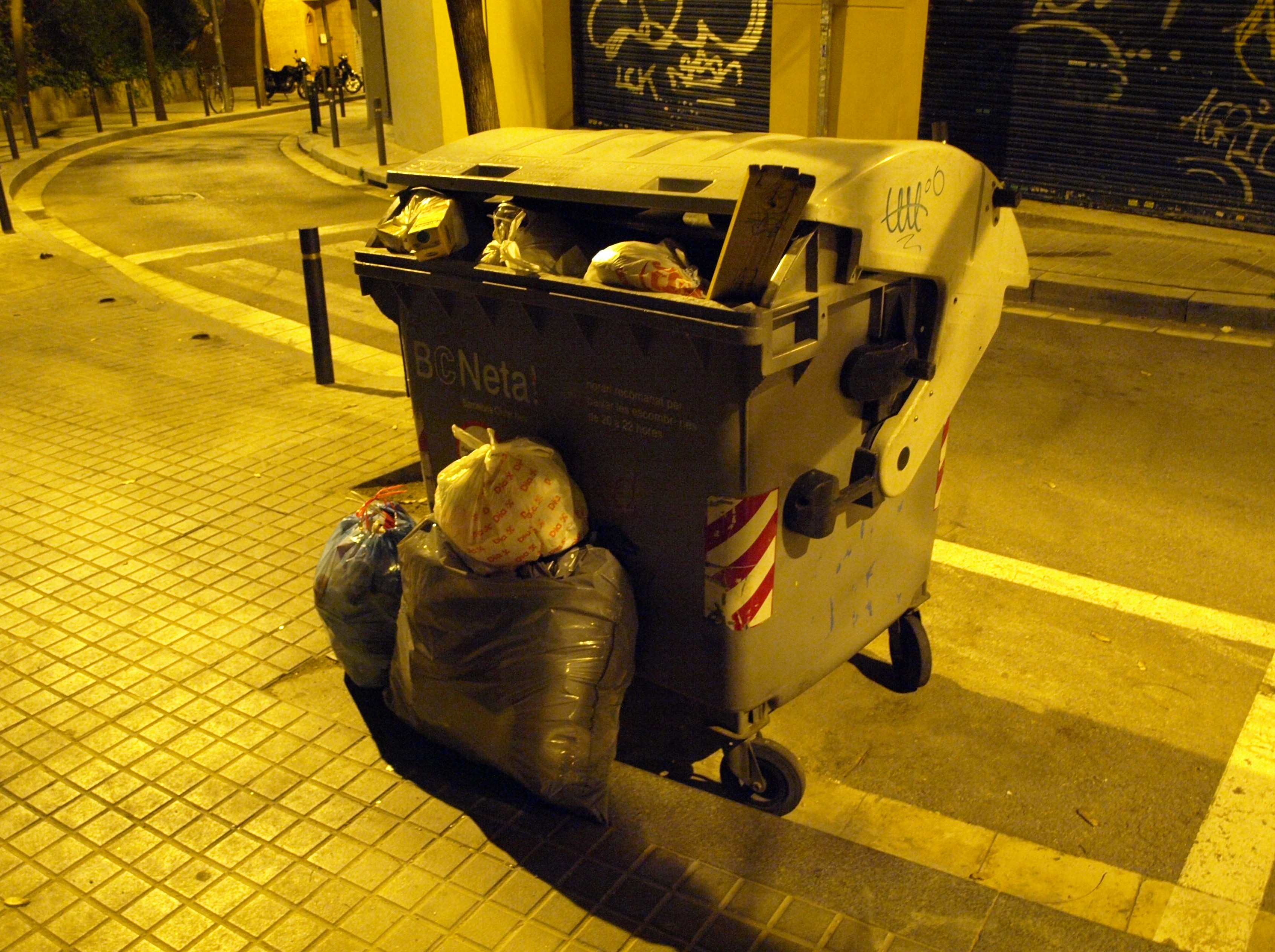 Waste container full of bags in a street of Barcelona